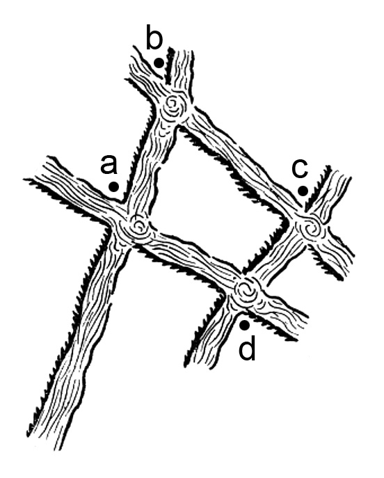 Scheme of the relationships between the disposition of the Menhirs and the underground energy lines